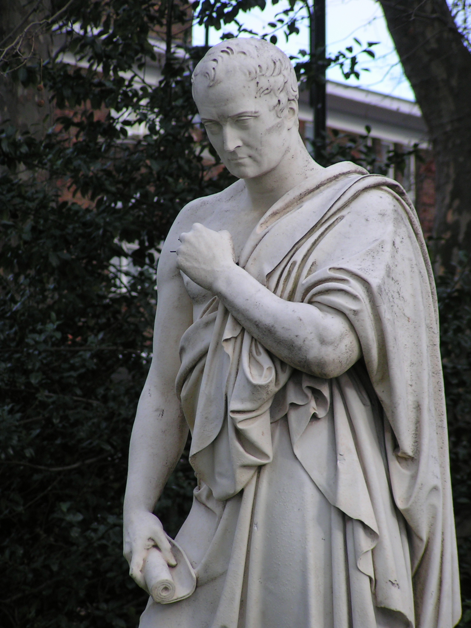 Detail of statue of William Huskisson by John Gibson in Pimlico Gardens, London. Photographed by James Gray, 8th February 2006